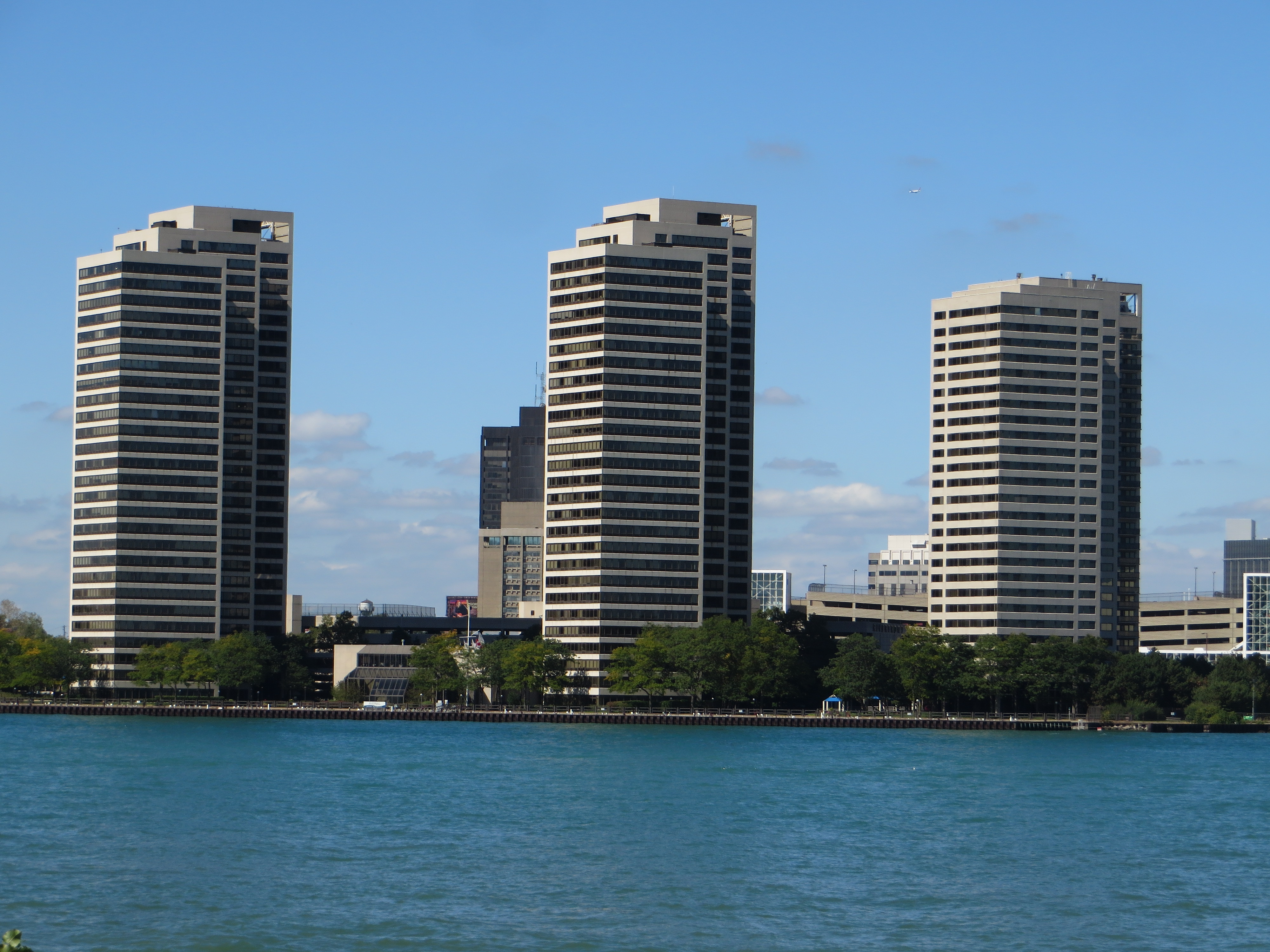 Riverfront Towers is an apartment and condominium complex of three luxury high rise residential skyscrapers along the International Riverfront in Detroit, Michigan, United States. Each Riverfront Tower creates an ascending tier of three towers. The three buildings are examples of modern architecture. Towers one and two are apartments, Tower three contains condominiums. Riverfront Tower 100 is a 275 unit high rise at 100 Riverfront Drive built in 1991 and finished in 1992. Riverfront Tower 200 is a 280 unit skyscraper at 200 Riverfront Drive built in 1982 and finished in 1983. Riverfront Tower 300 is a 295 unit skyscraper at 300 Riverfront Drive built in 1982 and finished in 1983.